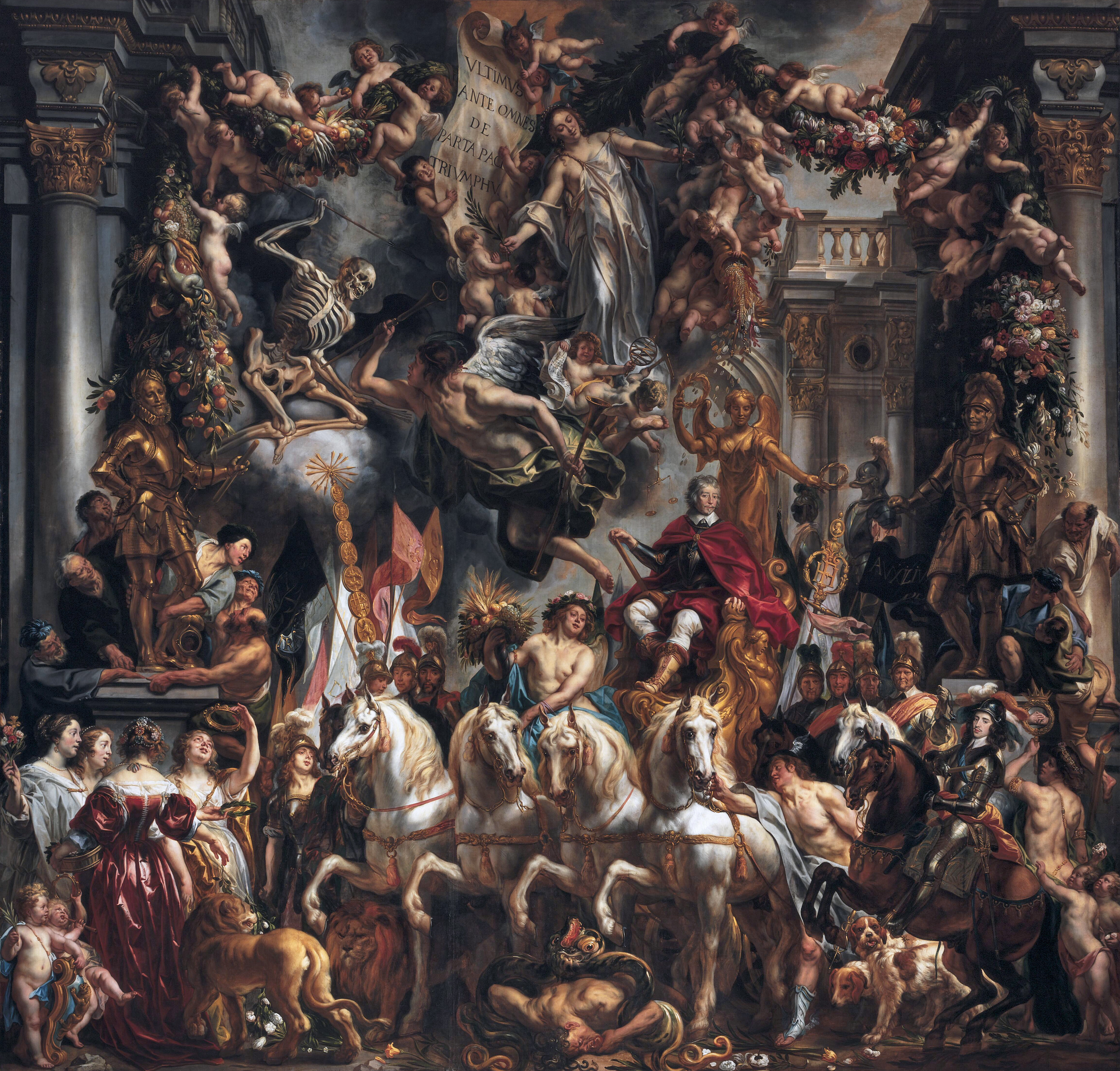 The Triumph of Frederik Hendrik oil on canvas 728 x 755 cm signed b.l.: J JOR fec / 1652